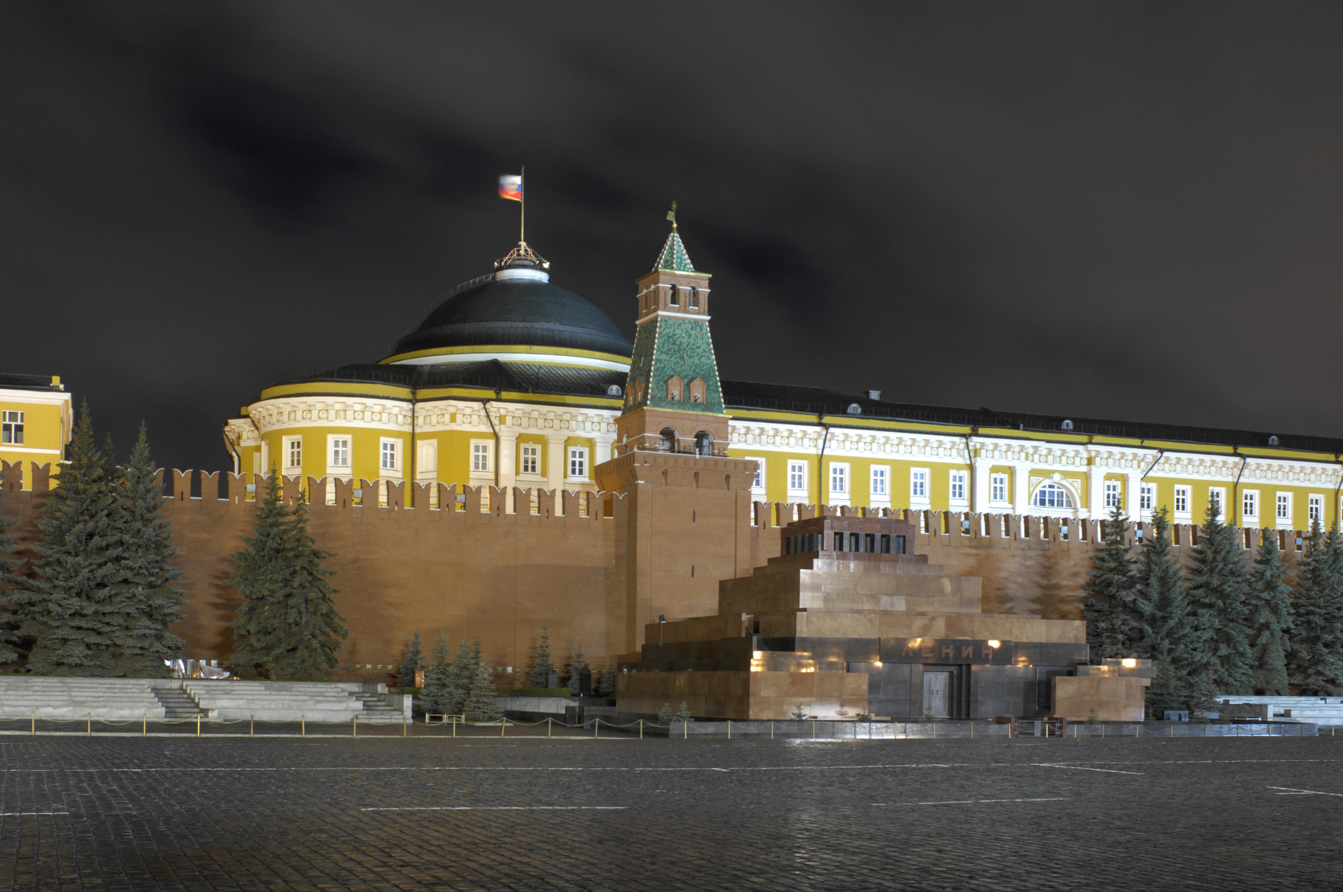 Night view of the Kremlin Senate, the Kremlin's Senatskaya Tower, and Lenin's Mausoleum , in Red Square.